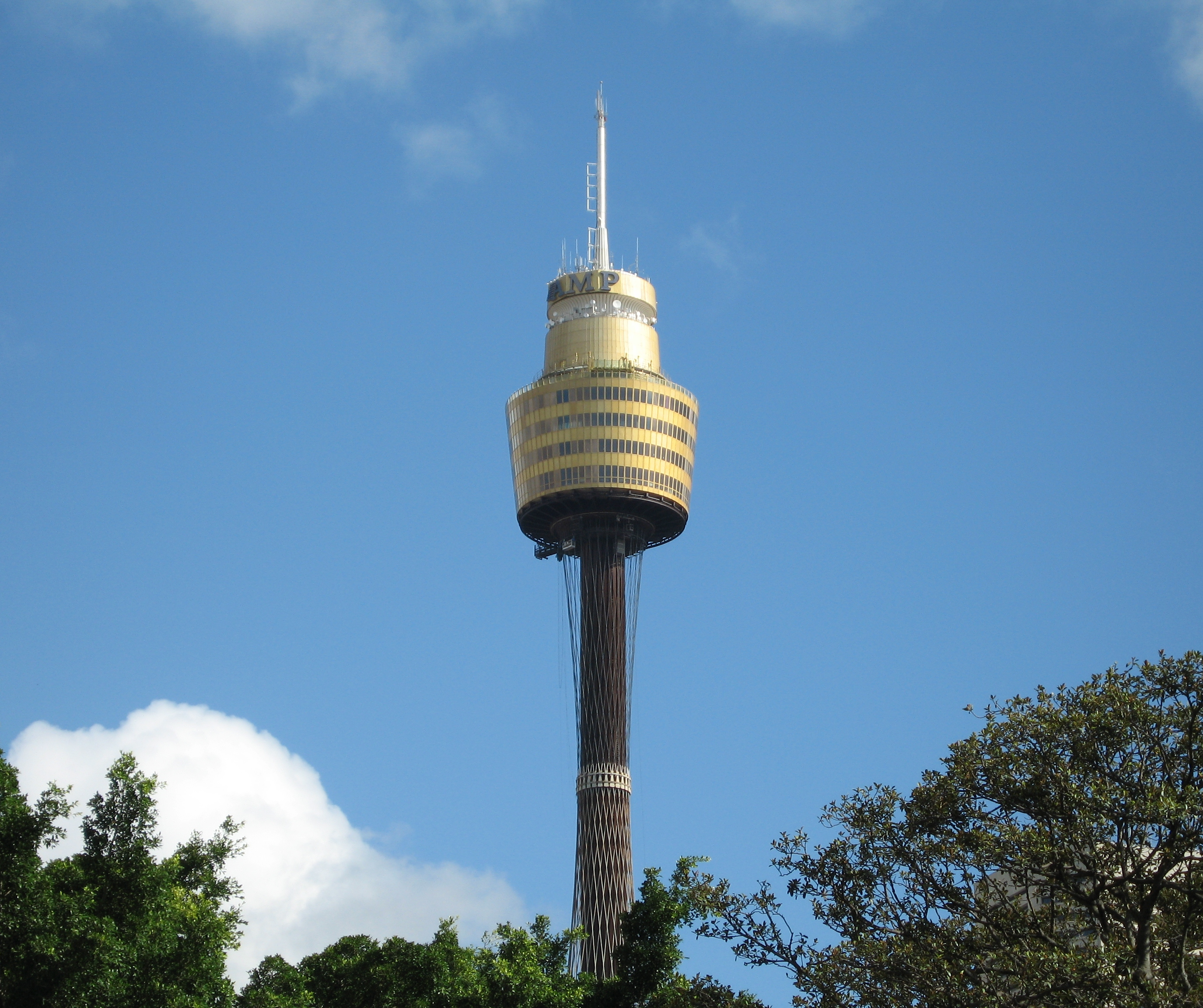 The Sydney Tower viewed from Hyde Park, Sydney, Australia.